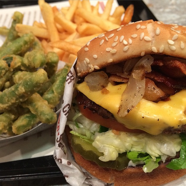 Bacon/cheese Charburger, tempura green beans, fries